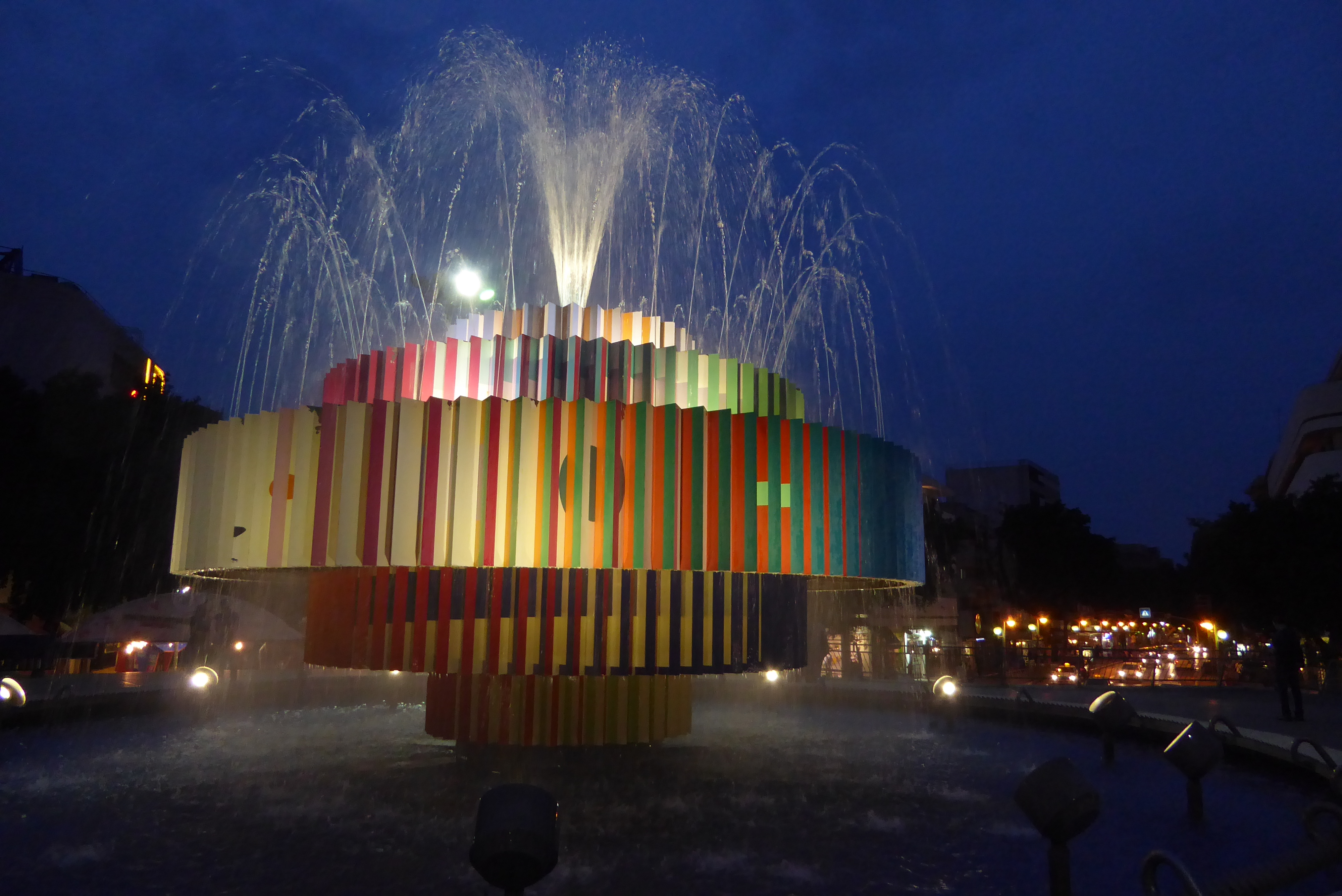 Dizengoff Square